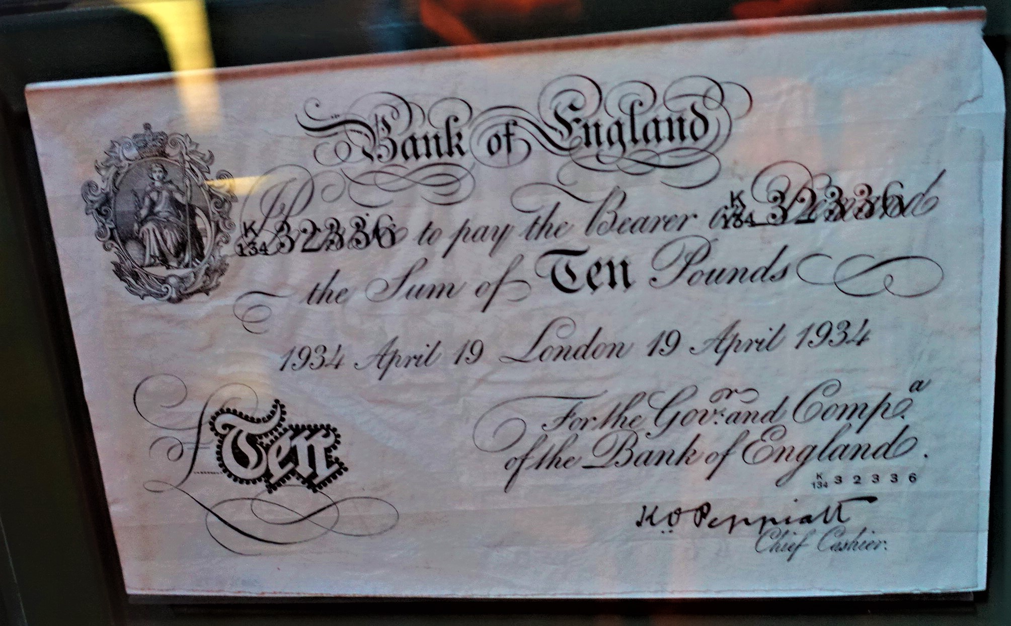 Forged British Bank Note from Operation Bernhard - - International Spy Museum.